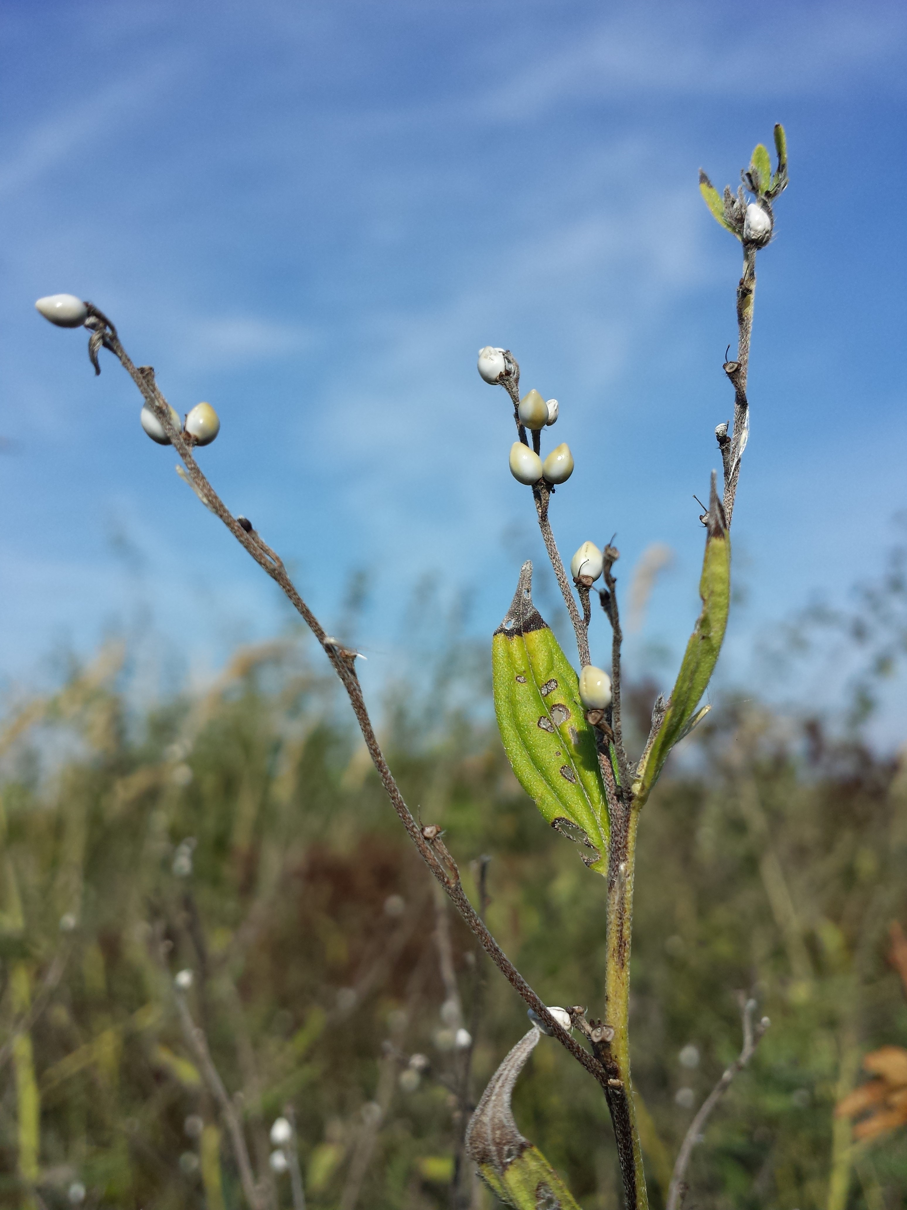 Infructescence Taxonym: Lithospermum officinale ss Fischer et al. EfÖLS 2008 ISBN 978-3-85474-187-9 Location: Steinbacher Heide, Leiser Berge, district Korneuburg, Lower Austria - ca. 450 m a.s.l. Habitat: shrubbery